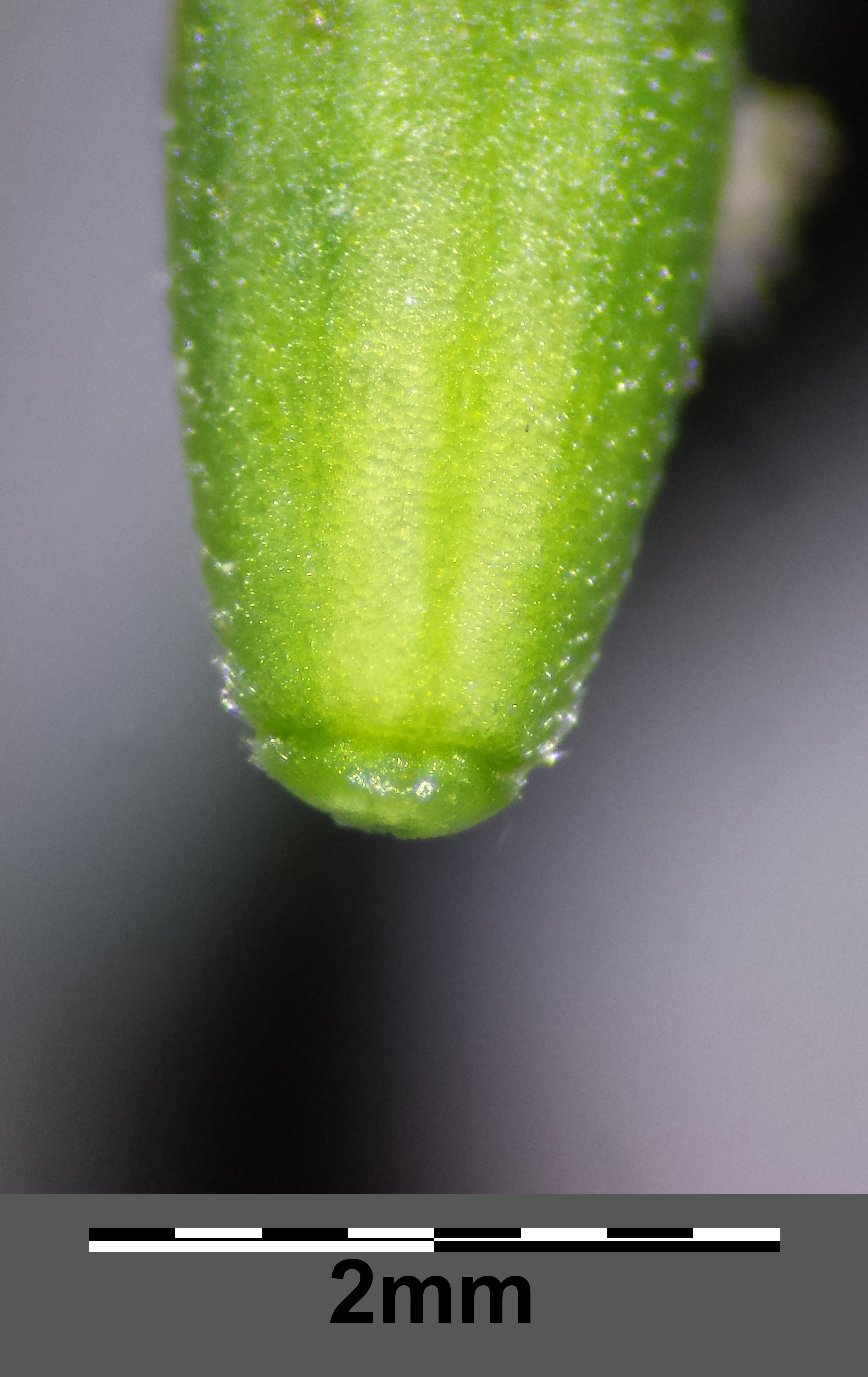 Linear hilum Taxonym: Festuca arundinacea subsp. arundinacea ss Fischer et al. EfÖLS 2008 ISBN 978-3-85474-187-9 Location: Unterrohrbach/In den Teichteln, district Korneuburg, Lower Austria - ca. 200 m a.s.l. Habitat: wet meadows